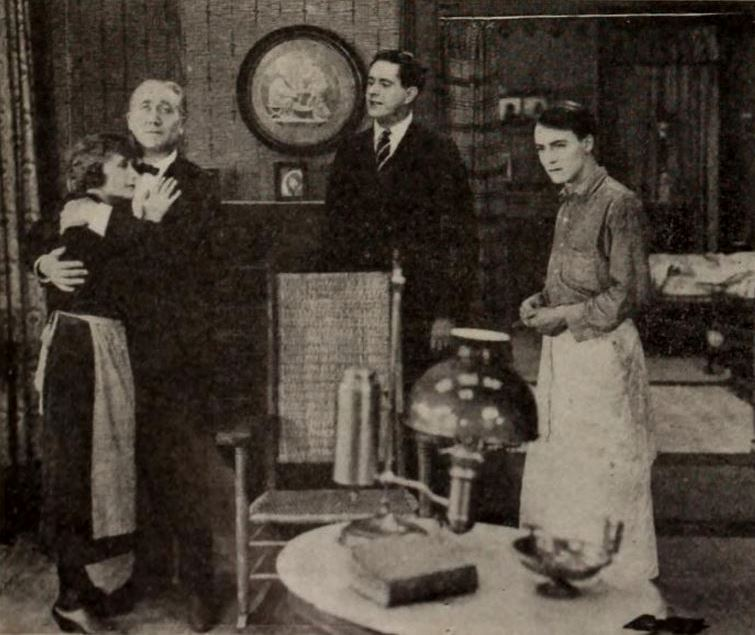 Still from the American drama film The Stealers (1920), on page 58 of the September 18, 1920 Exhibitors Herald.